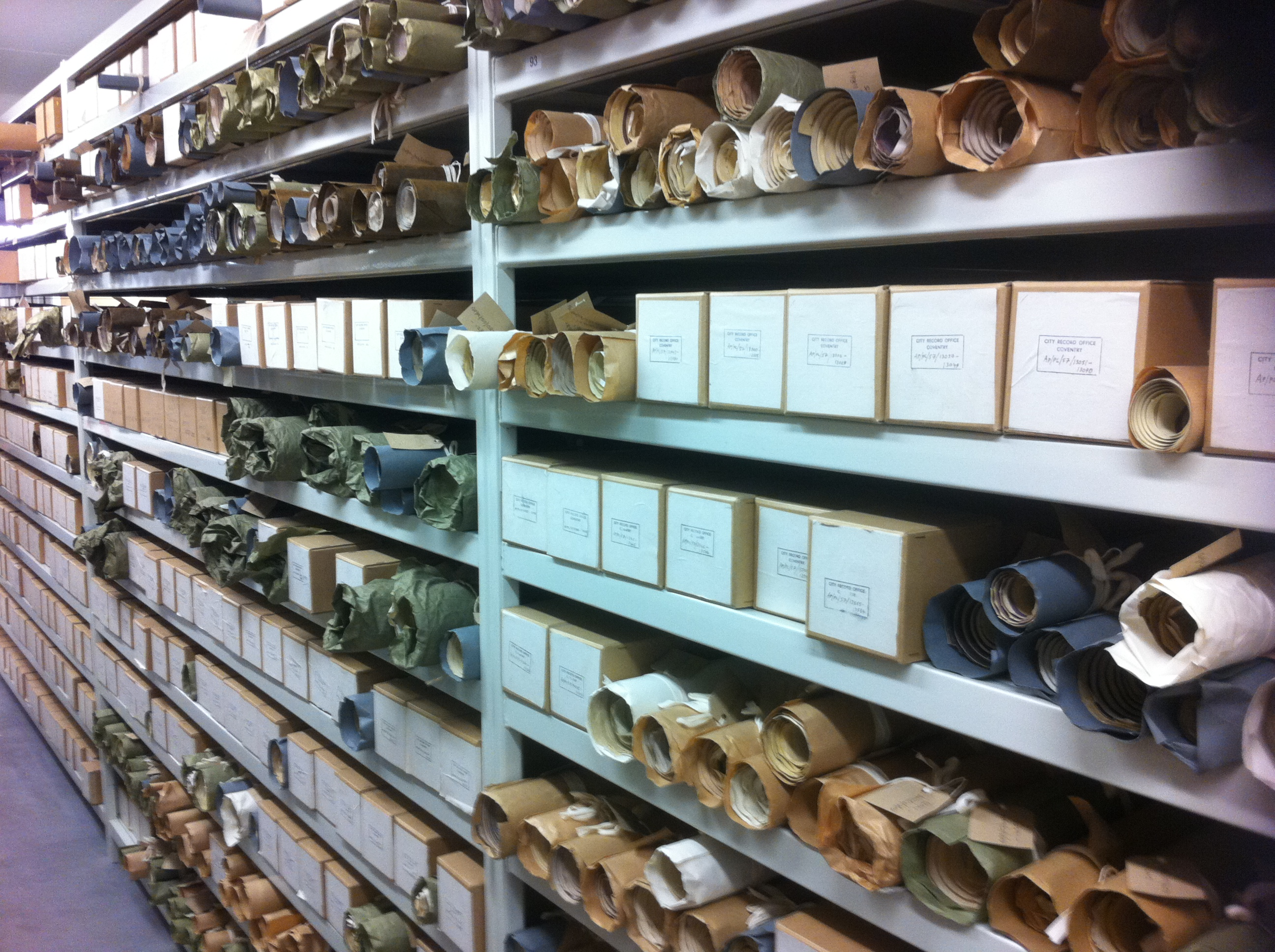 Photograph taken during the GLAM/Herbert "Backstage Pass tour" at The Herbert Art Gallery and Museum, Coventry